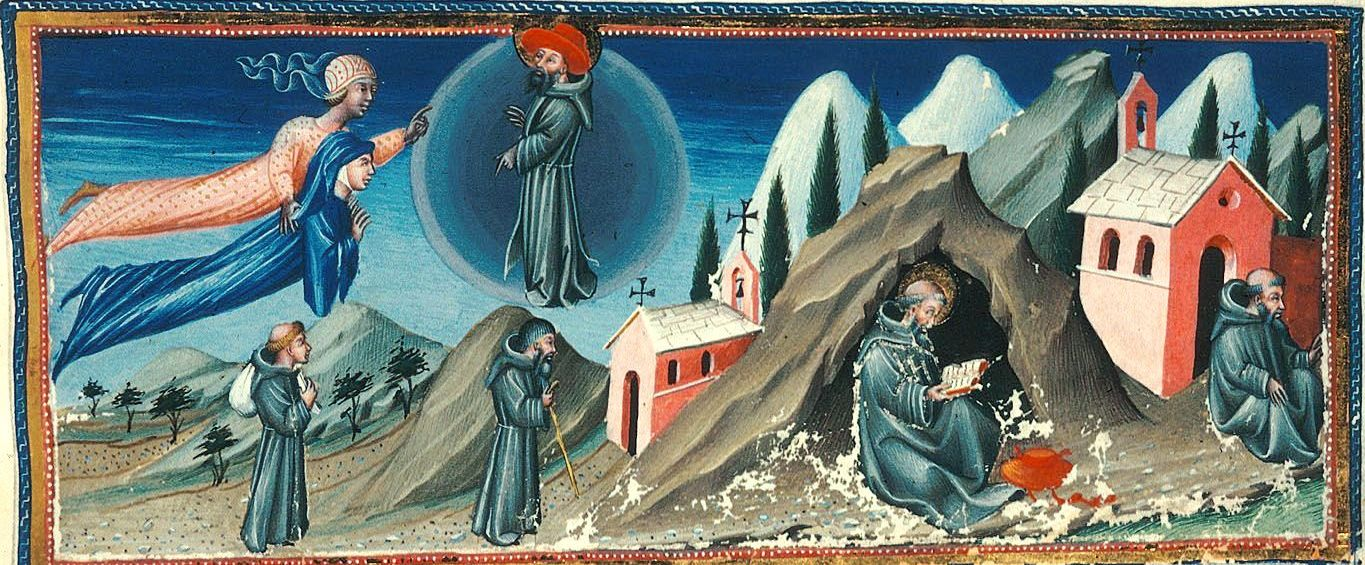 Divine Comedy. Dante